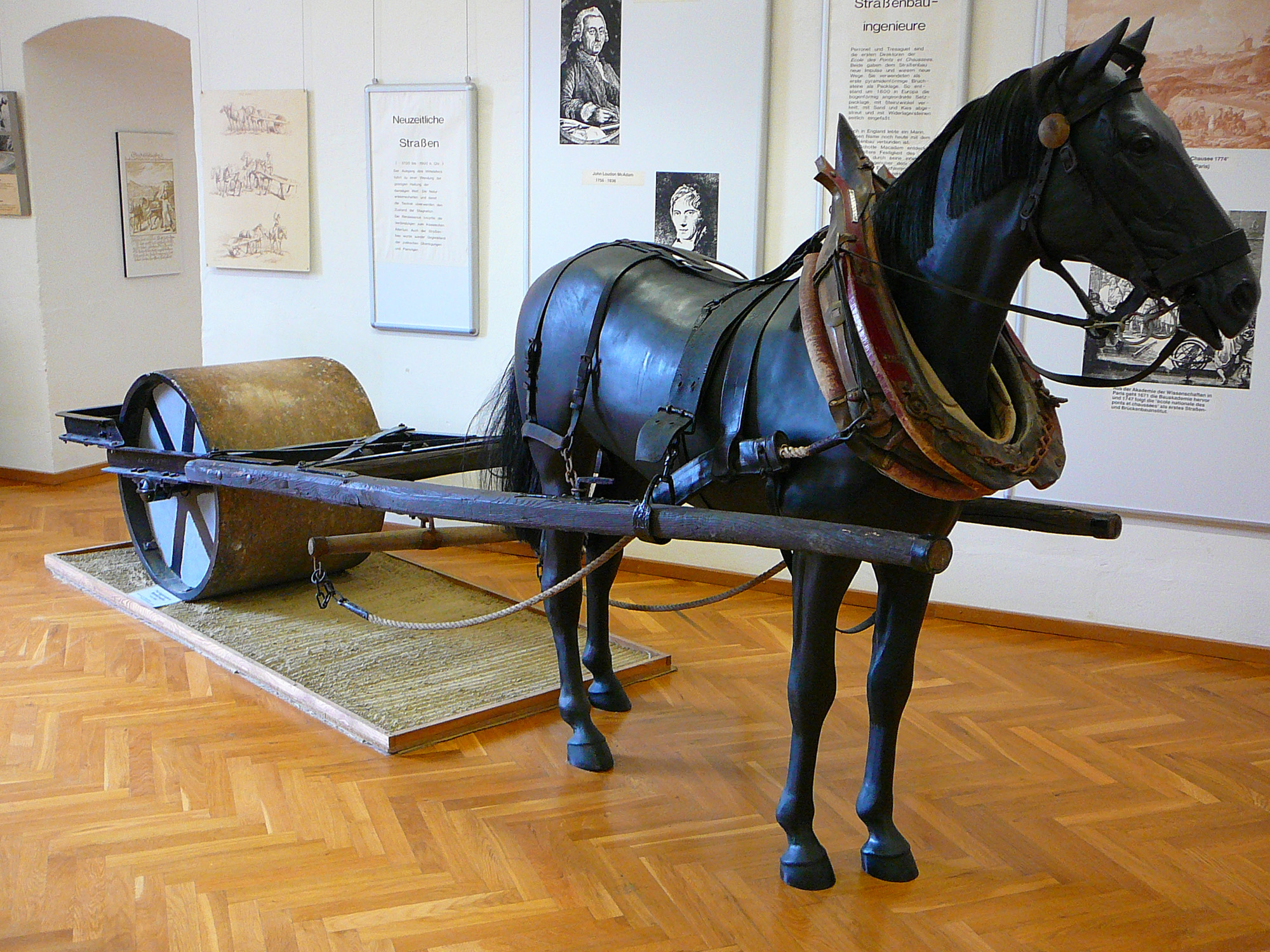 Horse-drawn road roller from 1800. On display in the Deutsches Straßenmuseum, Germersheim, Rhineland-Palatinate, Germany.